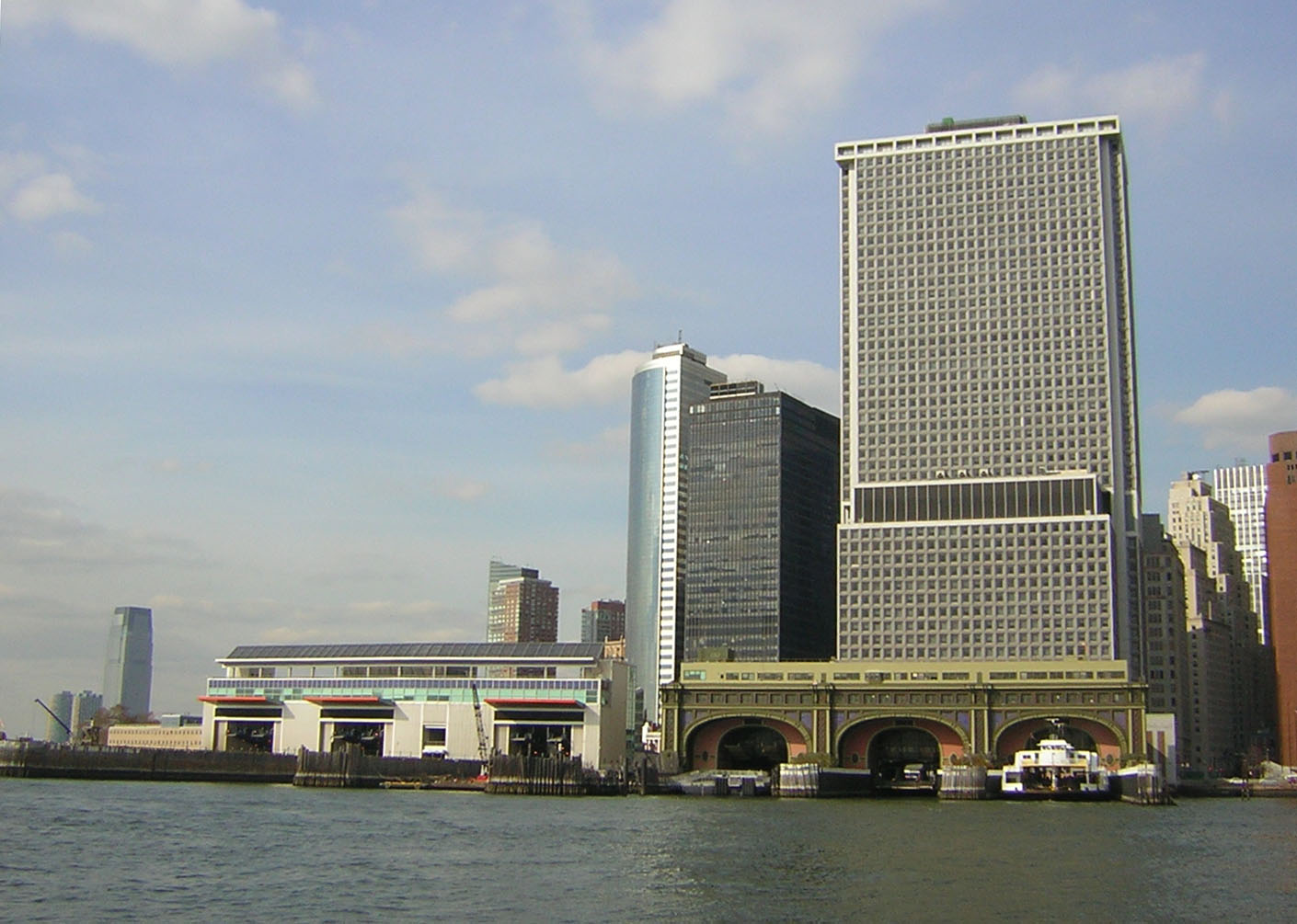 Looking north from Circle Line boat at South Ferry slips for Staten Island Ferry (left) and Governors Island ferry (right). The former are empty for a moment and the latter are not busy because the island is closed for the winter.